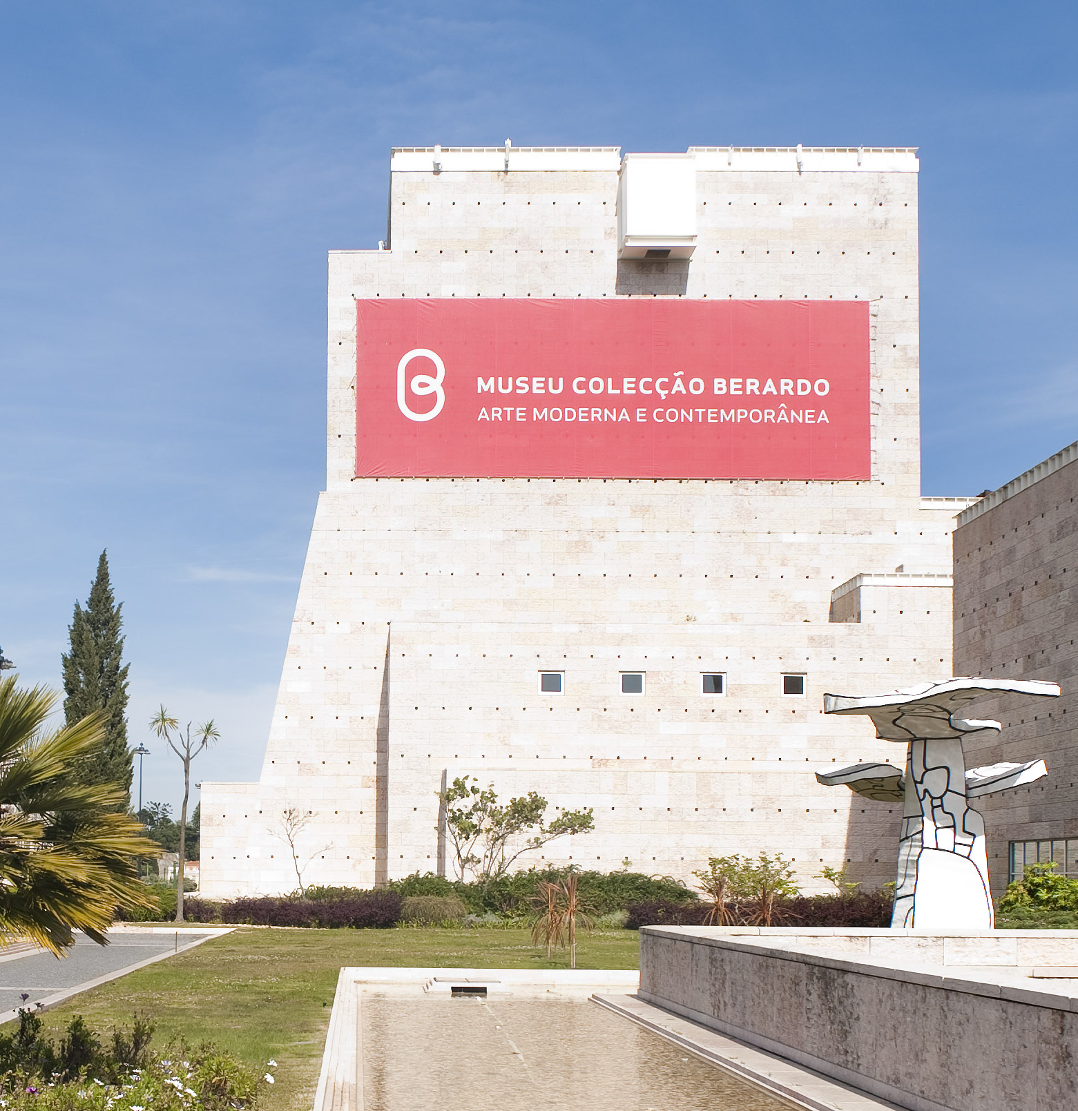 The front of the berardo collection museum